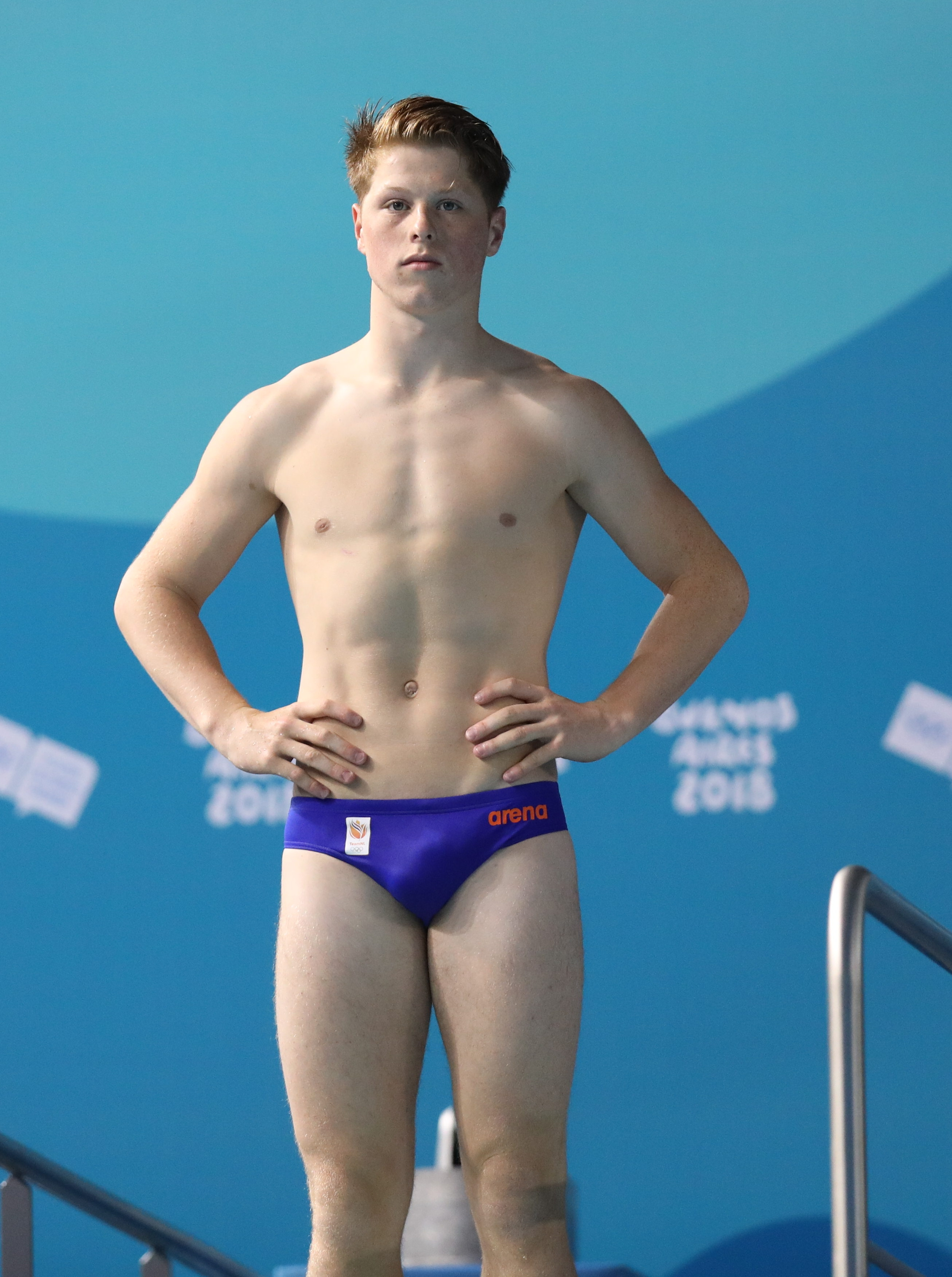 Diving, Boys 3m springboard: Jump 3